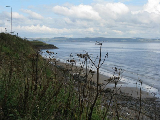 Shore at Seafield With a foreground of old hogweed stems and umbels.